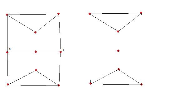 A graph with no hamiltoncycle in it